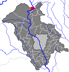 This map shows the area of the Gemeinde (municipality) Röthelstein in the Bezirk (district) Graz-Umgebung, Styria, Austria.